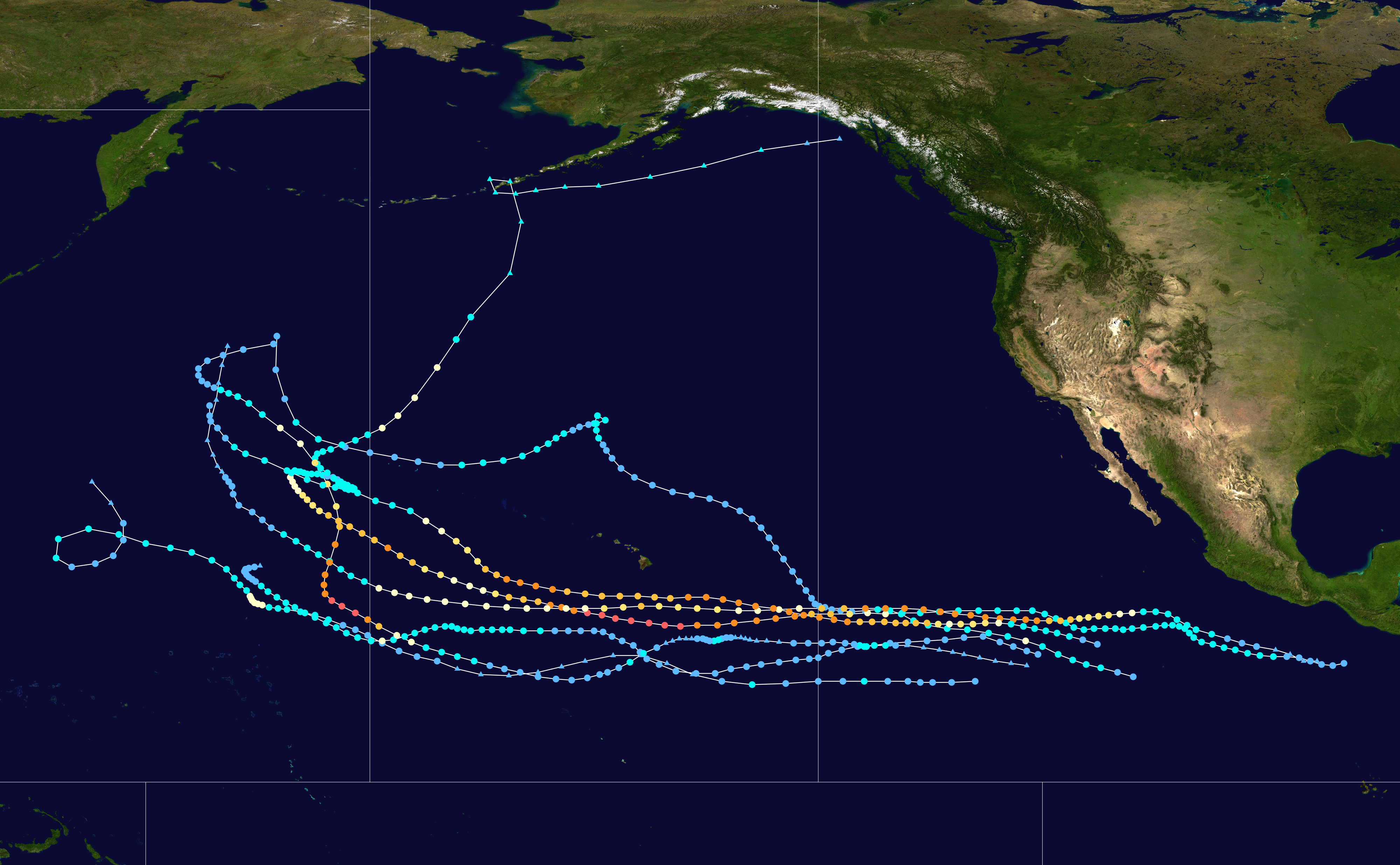 Track map of all hurricanes that crossed from the Eastern Pacific to the Western Pacific. The points show the location of the storm at 6-hour intervals. The colour represents the storm's maximum sustained wind speeds as classified in the Saffir-Simpson Hurricane Scale (see below), and the shape of the data points represent the nature of the storm, according to the legend below. Saffir–Simpson scale Tropical depression≤38 mph≤62 km/h Category 3111–129 mph178–208 km/h Tropical storm39–73 mph63–118 km/h Category 4130–156 mph209–251 km/h Category 174–95 mph119–153 km/h Category 5≥157 mph≥252 km/h Category 296–110 mph154–177 km/h Unknown Storm type Tropical cyclone Subtropical cyclone Extratropical cyclone / Remnant low / Tropical disturbance